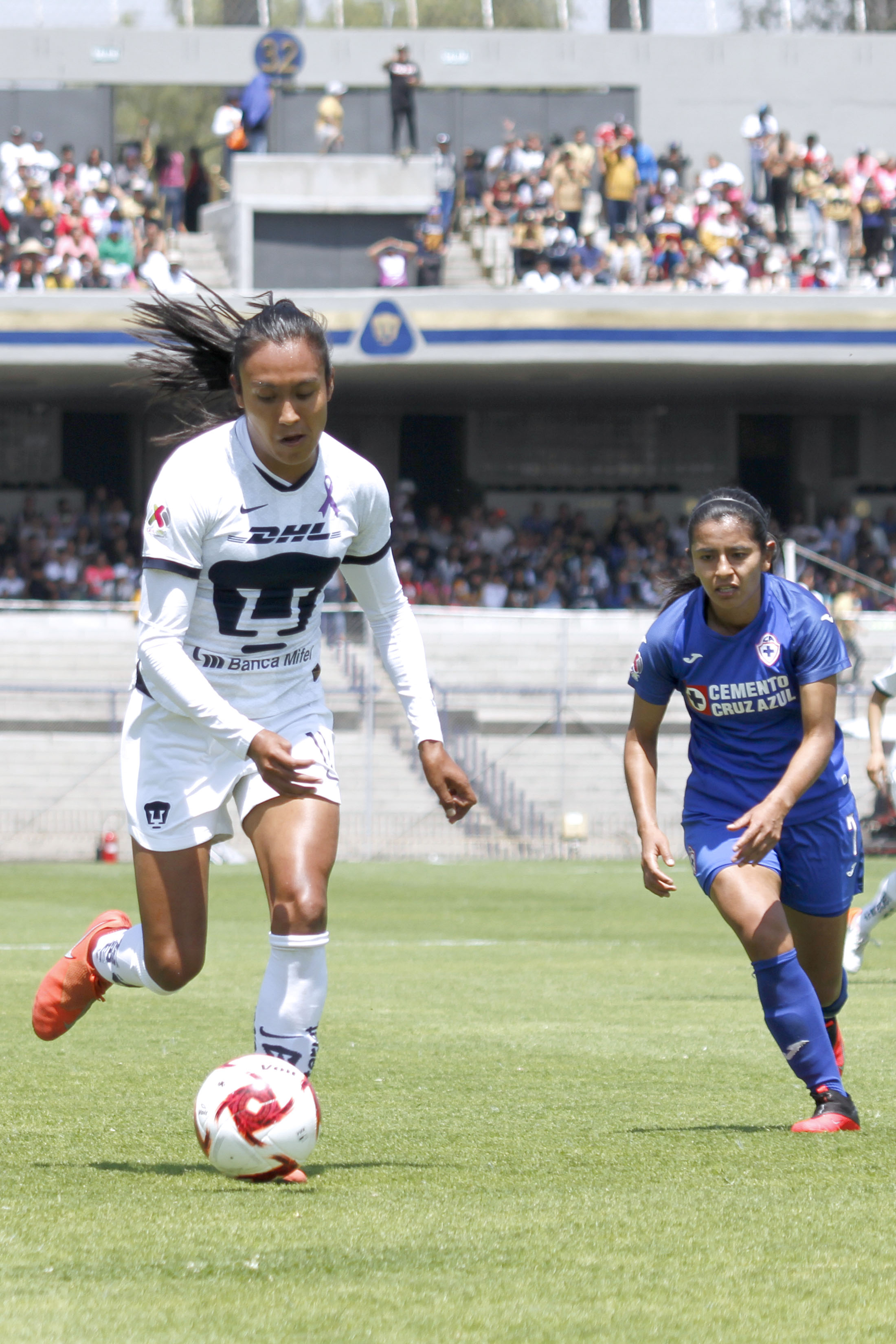 Football players Mariela Jiménez and Brenda León playing at Estadio Olímpico Universitario in Mexico City. 14 March 2020. Picture by Maritza Rios / Secretaria de Cultura de la Ciudad de Mexico.